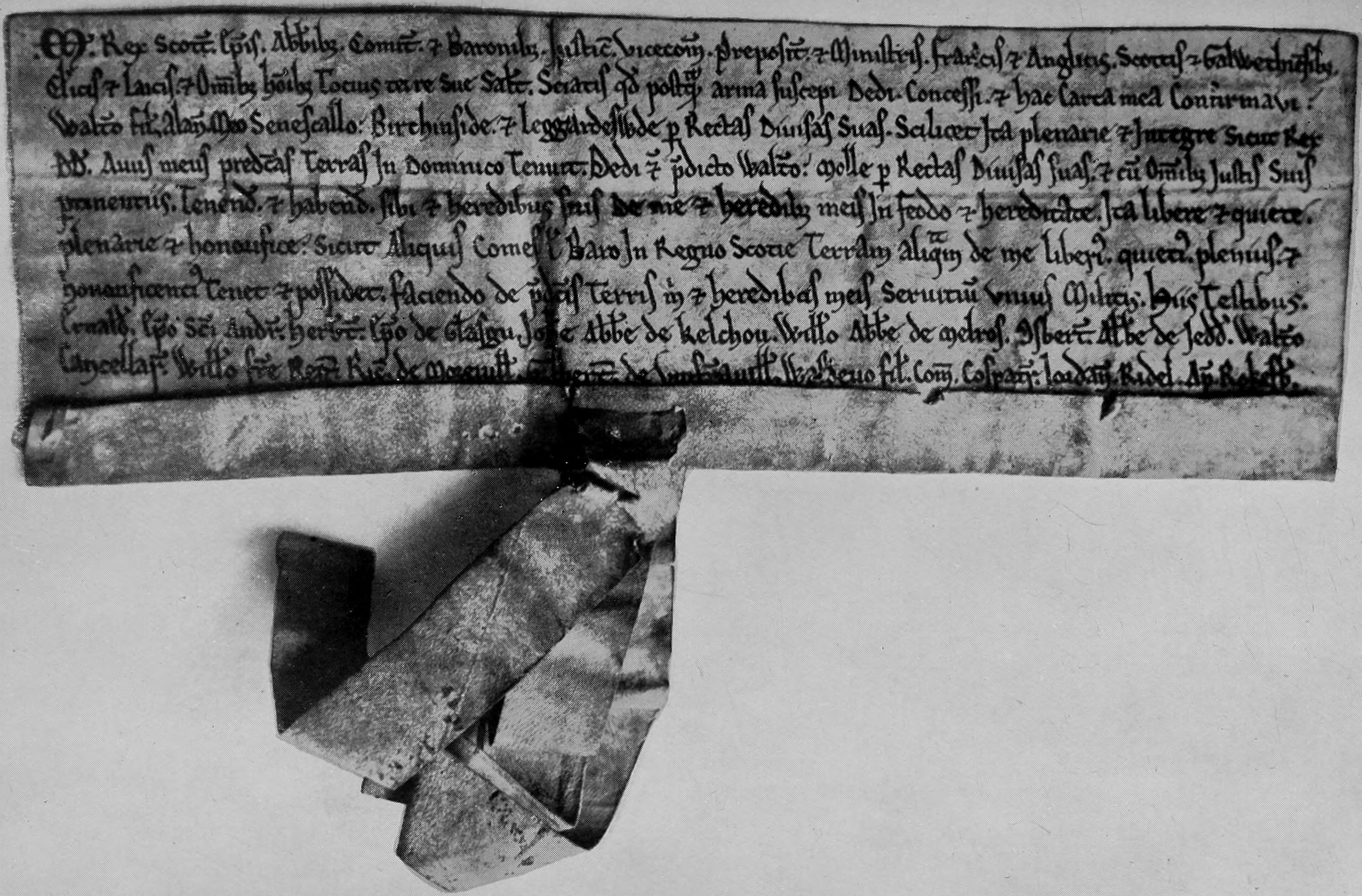 A charter of Malcolm IV, King of Scotland (died 1165) concerning the grant of Birkenside, Legerwood and Mow to Walter fitz Alan, Steward of Scotland (died 1177).